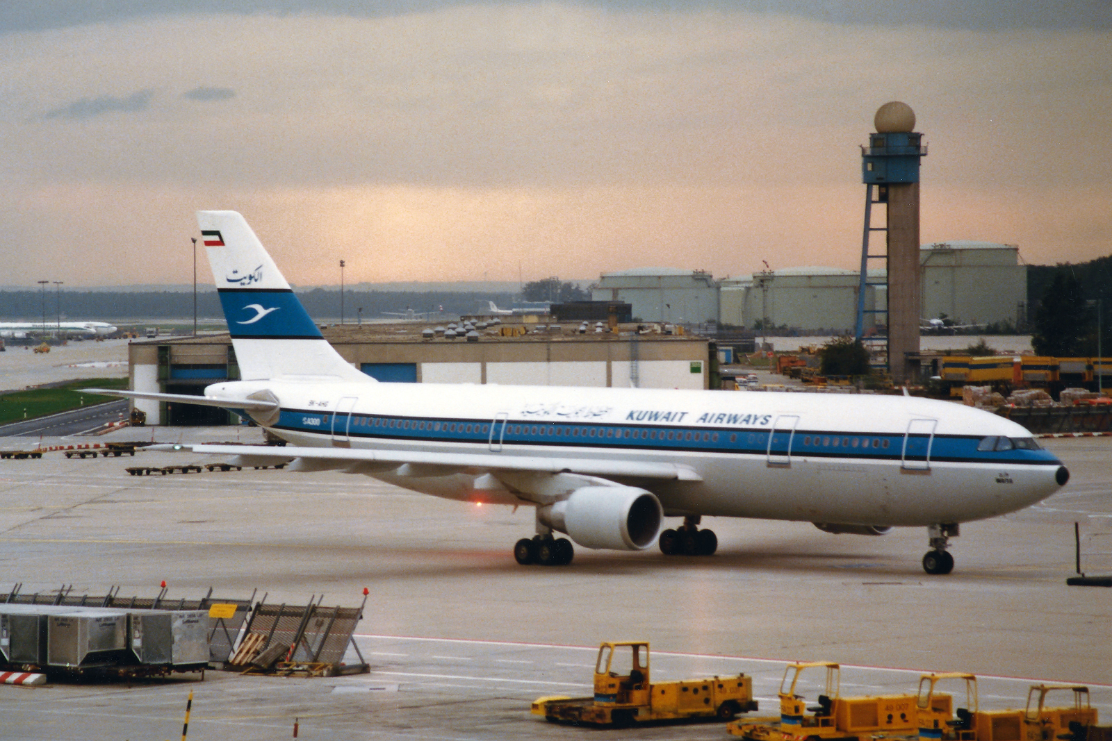 Frankfurt am Main (Rhein-Main AB) (FRA / EDDF / FRF) Germany 10.1984 W/O (destroyed) during Desert Storm in February 15, 1991 at Mosul in Iraq.